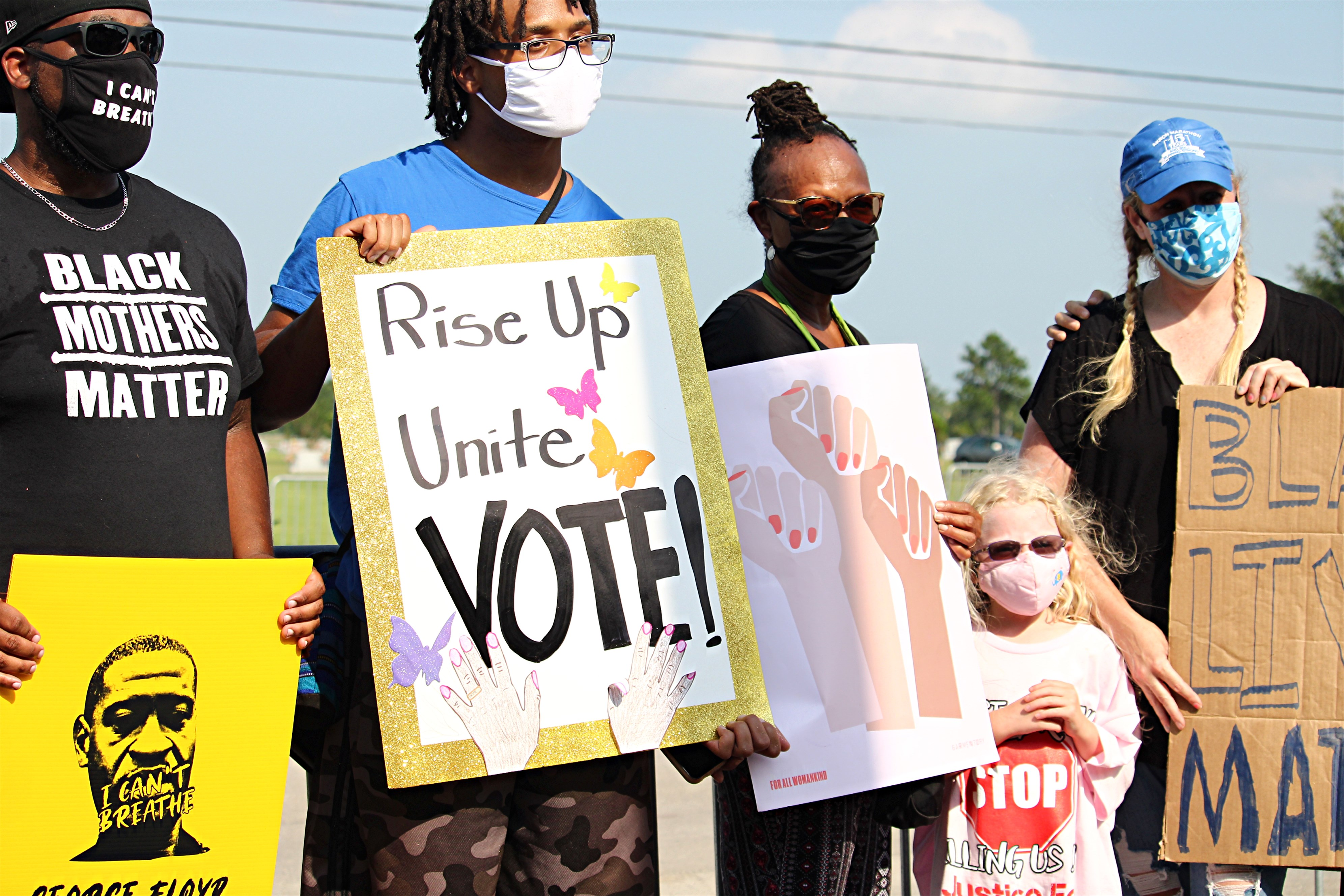 The Last Mile Of The Way.. Funeral procession with a horse-drawn carriage of George Floyd’s body down Cullen Blvd to the Houston Memorial Gardens Cemetery. Pearland, TX 6-9-20